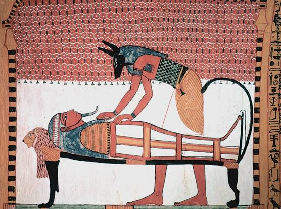 Picture of wall painting from the tomb of Sennedjem. Anubis attending the mummy of the deceased. [note: link to the image is broken. Author need to replace link]